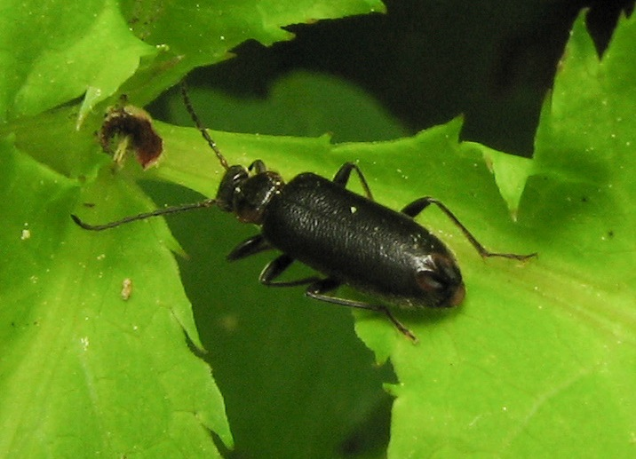 Pyrochroid beetle, Pedilus lugubris, male. Pennypack Restoration Trust, Montgomery County, Pennsylvania, USA.